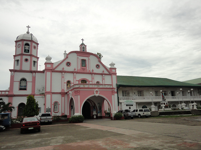 1667 St. Michael the Archangel Parish Church of Orion (Orion 2102 Bataan, Philippines) , Vicariate of St. Michael Archangel Pop.: 40,485 Cath.: 36,477 Titular: St. Michael, the Archangel, May 8 and September 29 Incumbent Parish Priest, Fr. Edilfredo R. Cruz, Former Parish Priest: Monsignor Victor Ocampo Parochial Vicar: Father Ramon Magana - The Vicariate of St. Peter Parish Priest: Rev. Msgr. Antonio S. Dumaual Parochial Vicars: Rev. Fr. Maximino D. Villanueva, Jr. Rev. Fr. Percival V. Medina - Roman Catholic Diocese of Balanga[1][2][3][4][5]